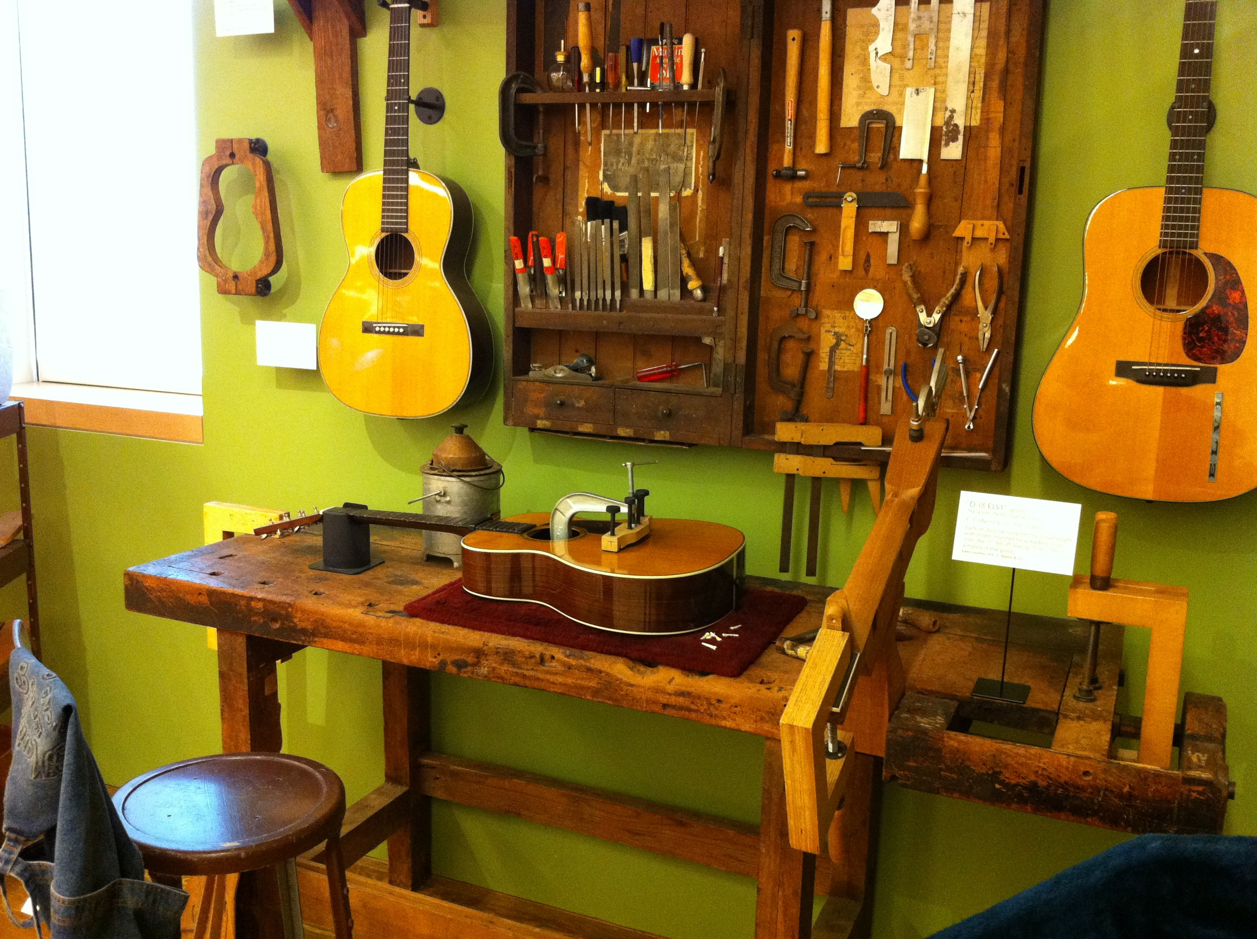 Martin Guitar Workshop